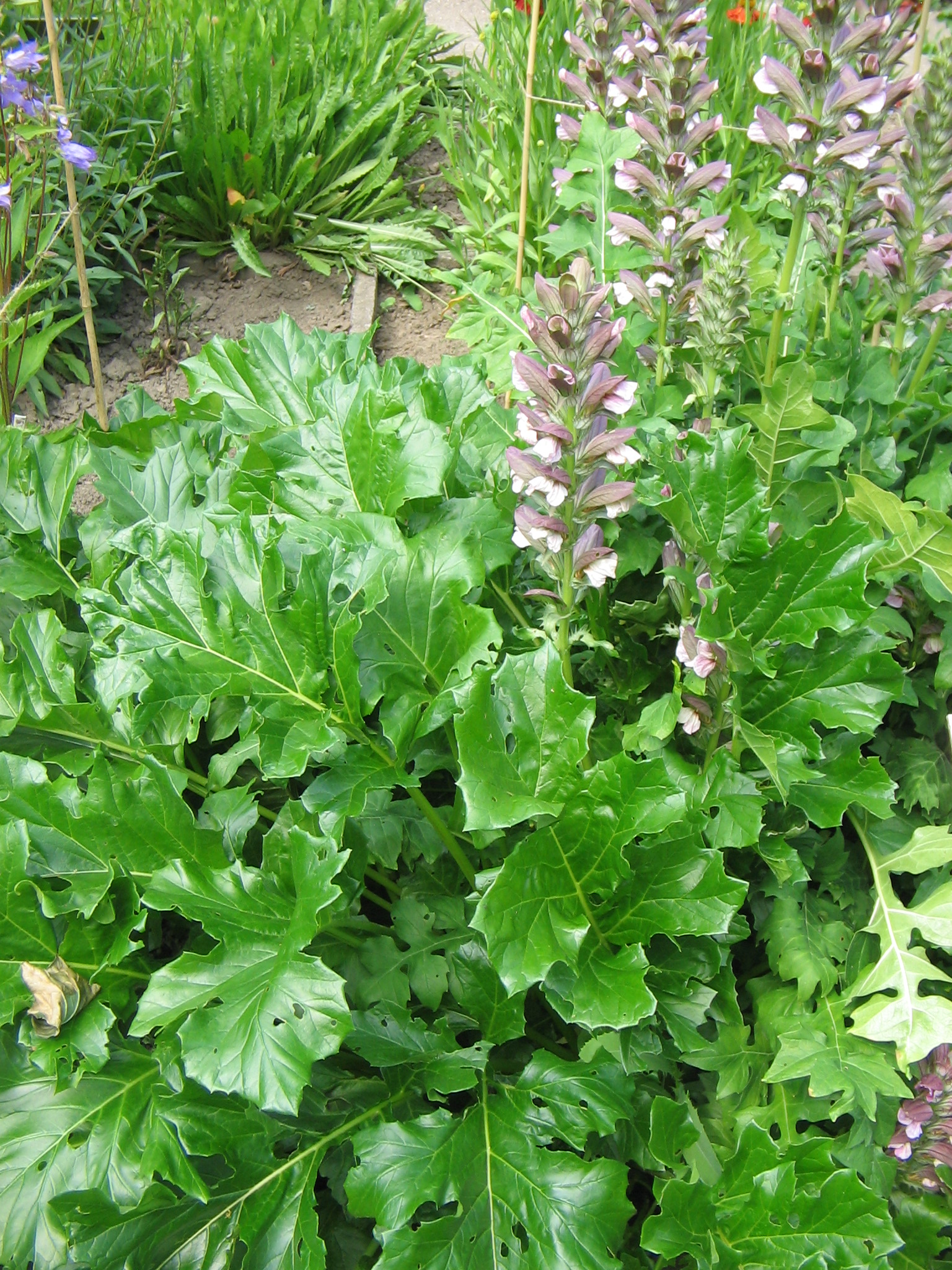 Acanthus mollis